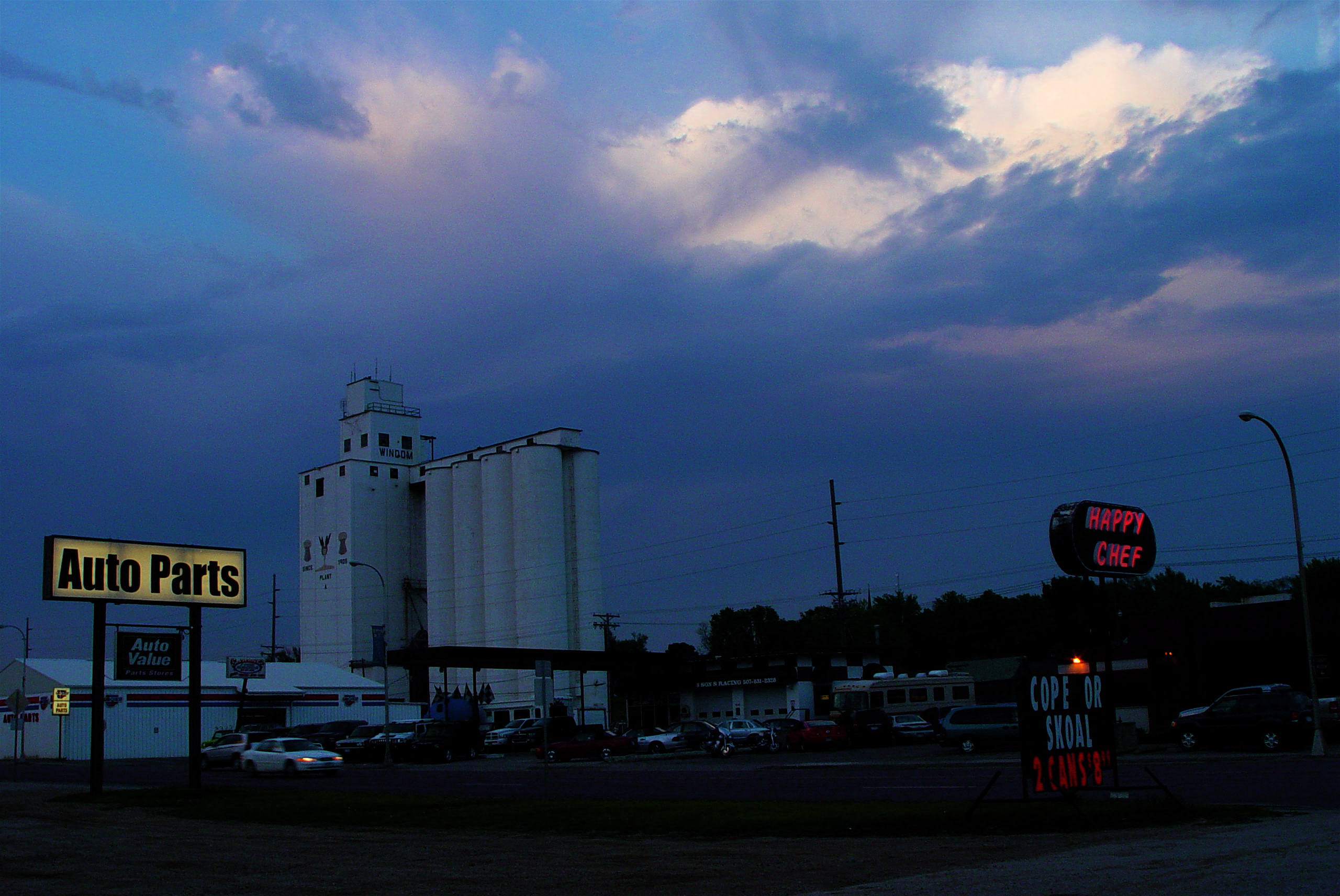 Auto Parts store, grain elevator and a Happy Chef in Windom, MN.